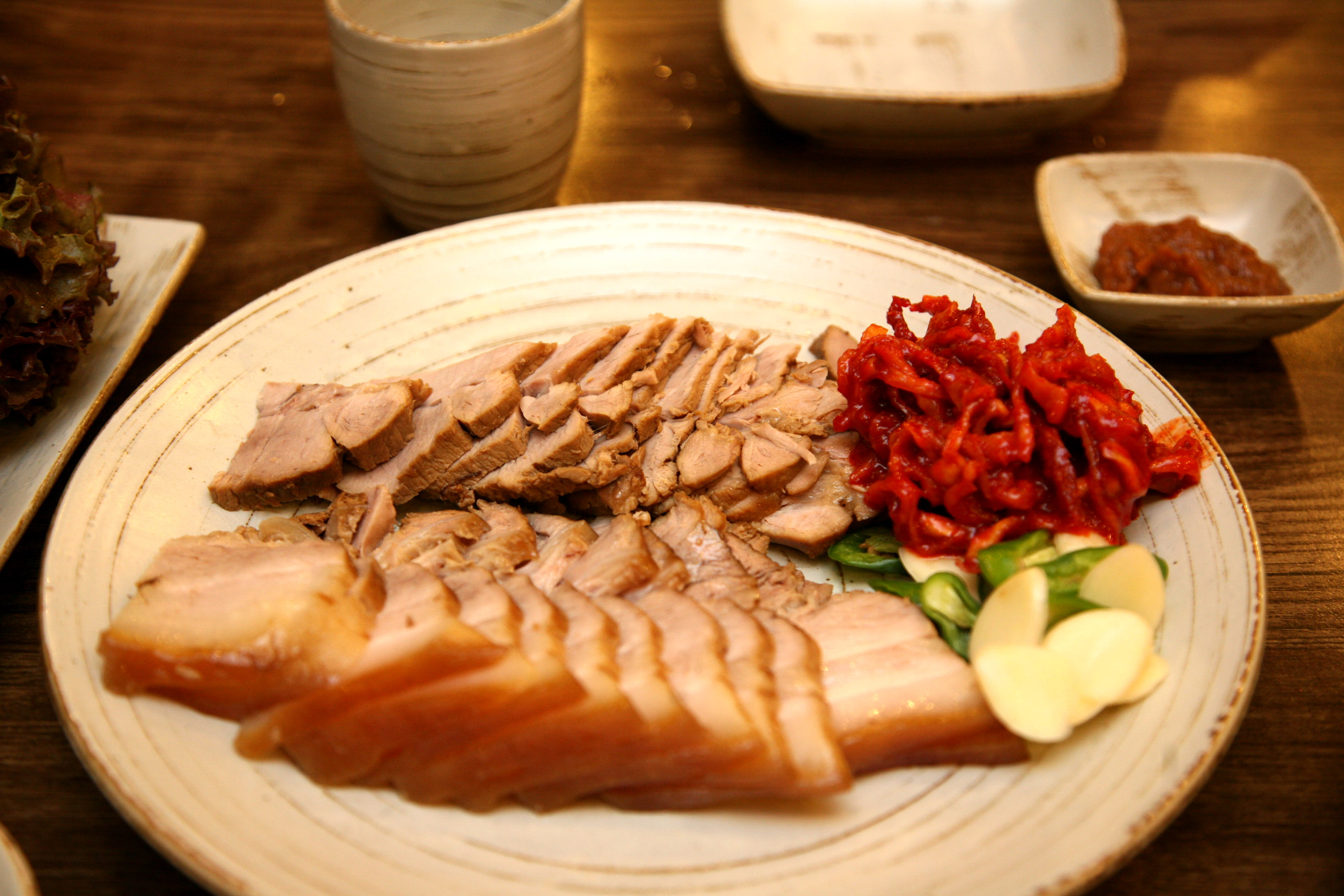 A view of Sokcho, Gangwon-do, South Korea